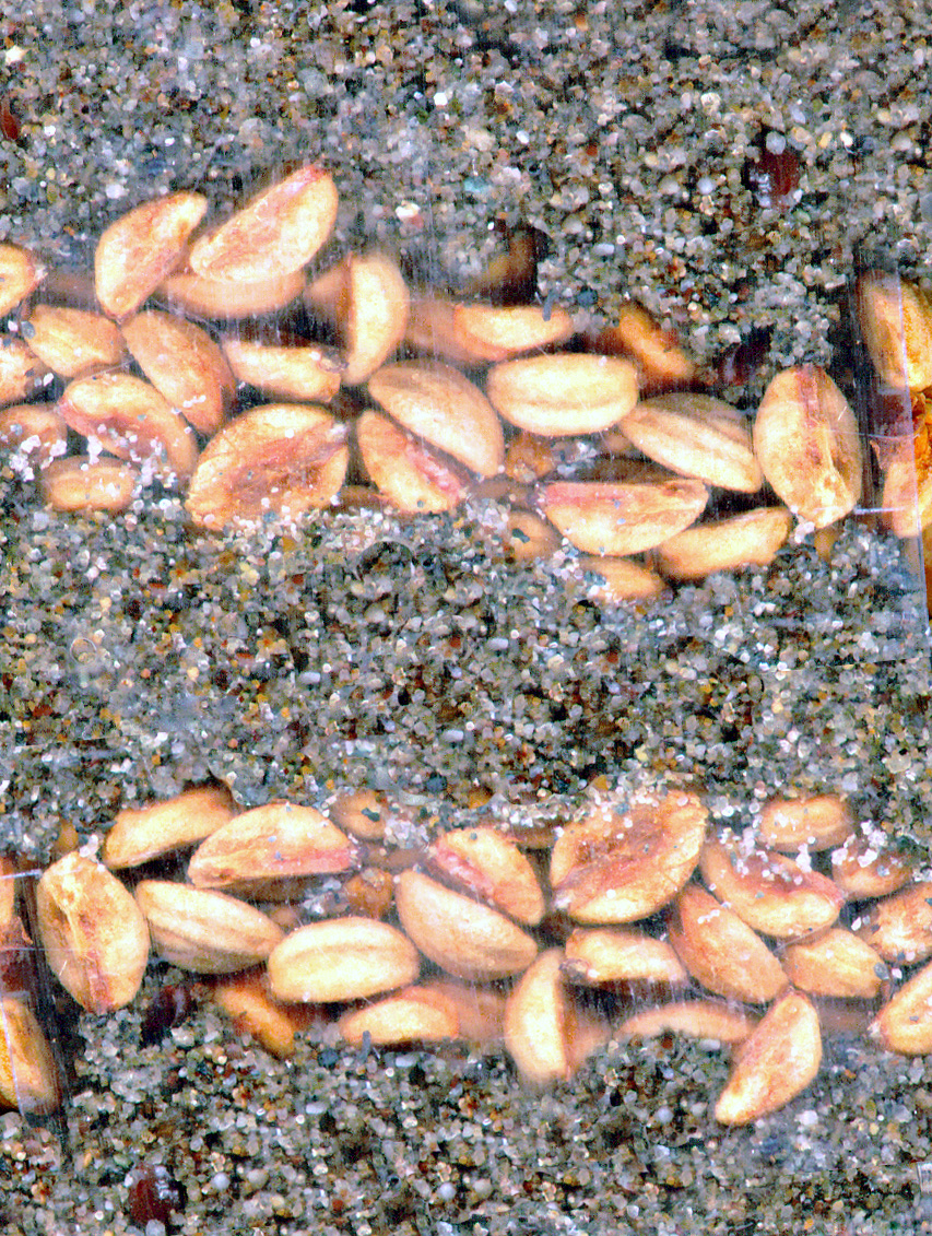 Stratification in sand of Crataegus seeds